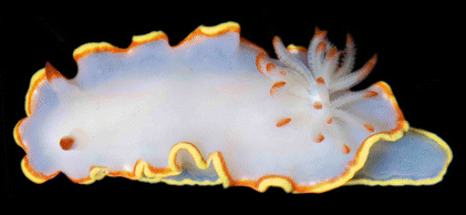 Photo of Doriprismatica sedna.